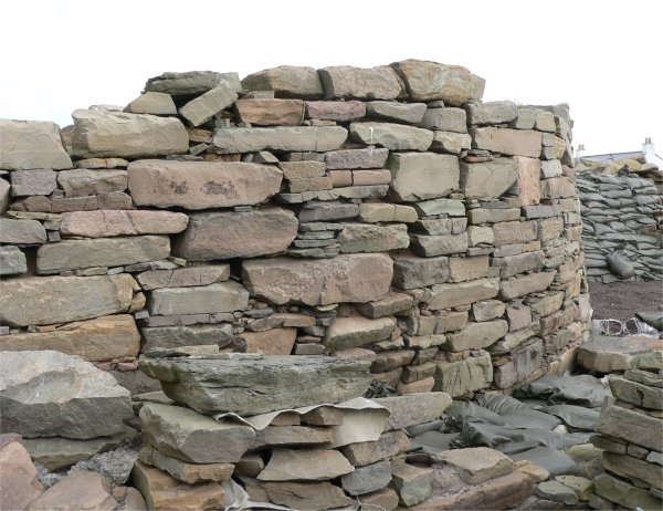 The broch of Old Scatness, Shetland, Scotland